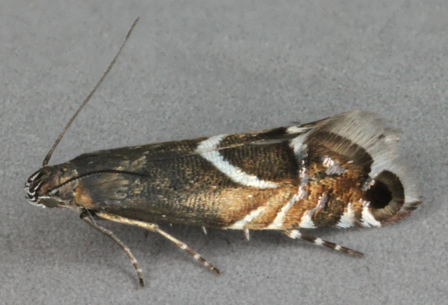 Glyphipterix schoenicolella, Cors Goch, North Wales, June 2012